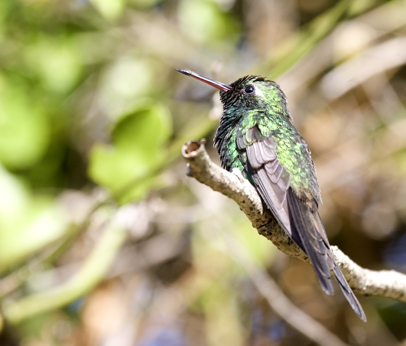 A male Cuban Emerald in Matanzas Province, Cuba.